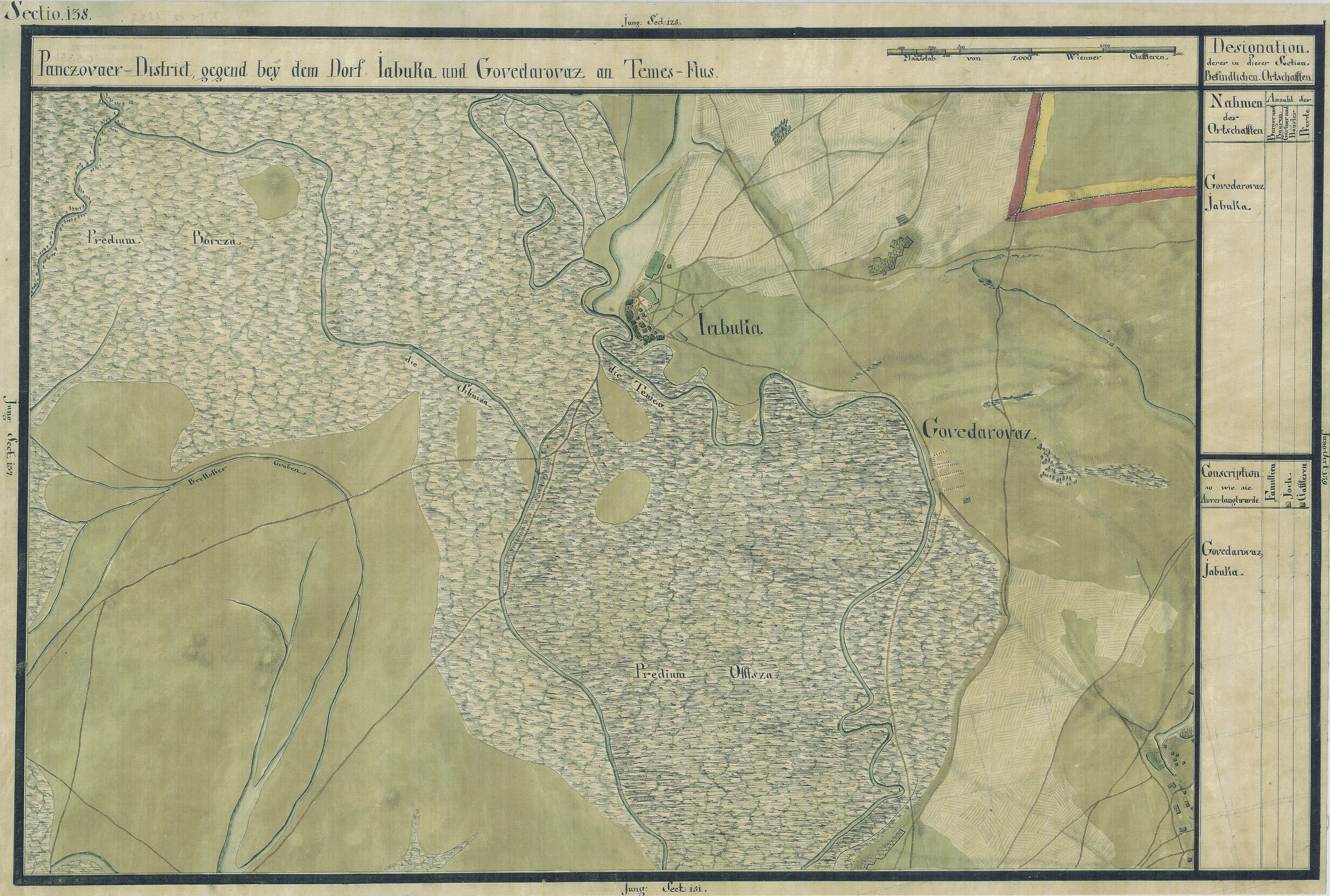 The Banat region in the cadastral maps: Josephinische Landesaufnahme, 1769-72. Josephinische Landaufnahme pg138